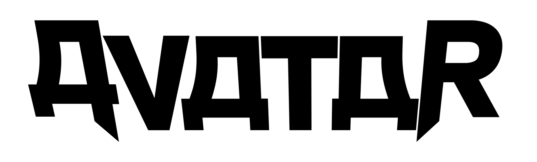 Avatar's Logo. Avatar is a Melodic Death Metal Band.